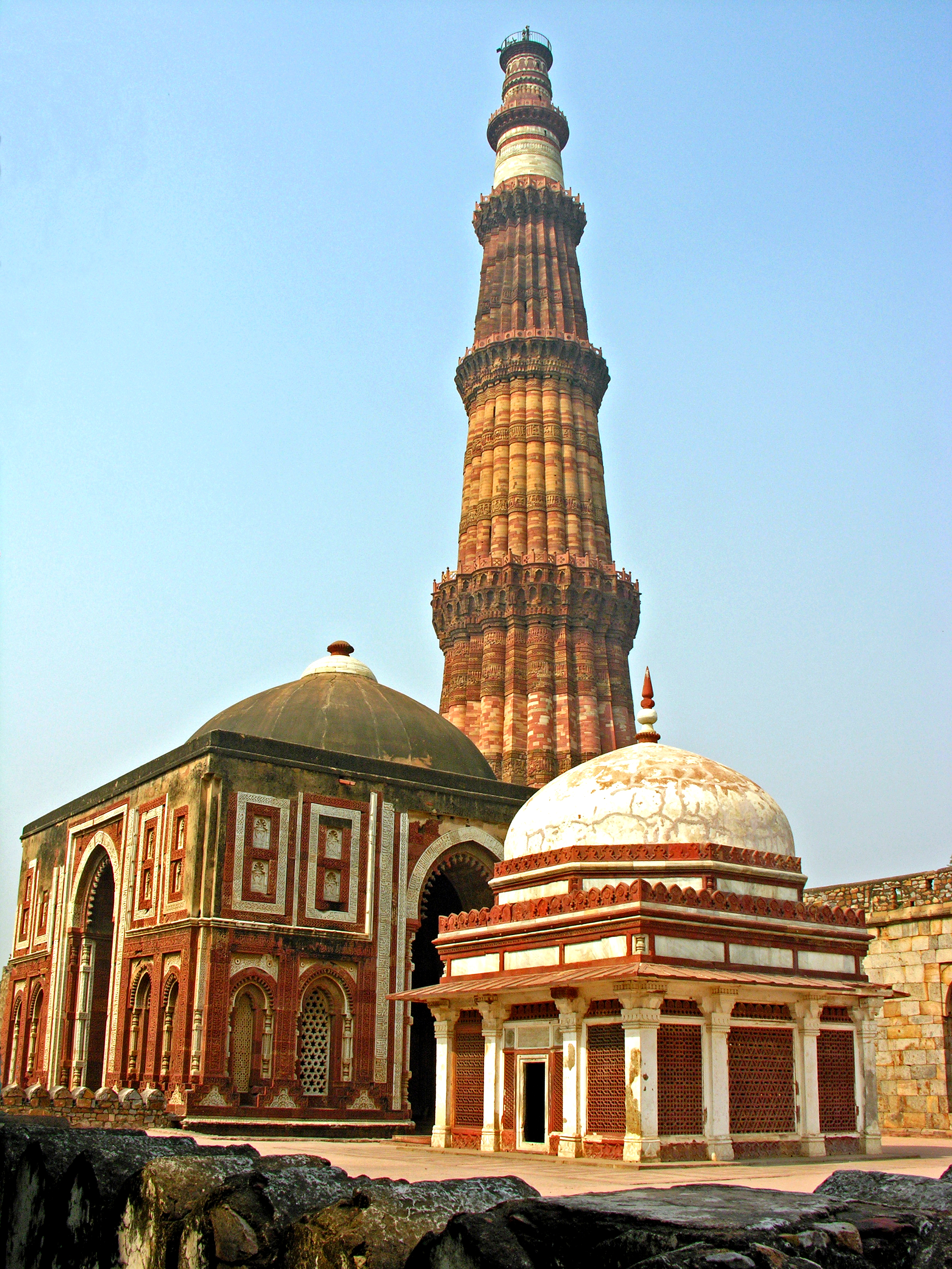 The building in front (white dome) is Imam Zamin's Tomb it is the tomb of the saint Imam Zamin, who carried out his duties in the Quwwat ul Islam Mosque. New Delhi, India Alai Darwaza is described as one of the gems of Islamic architecture, this gate built by Alauddin Khalji in 1311AD. The gateway to the Quwwat ul Islam mosque. The darwaza is a square, domed building with intricate carvings in red sandstone and marble. Qutab Minar, a height of 72.5m (239ft), is the highest stone tower in India and has a diameter of 14.32 metres at the base and about 2.75 metres at the top. This magnificent tower of victory stands in the Qutab Complex. King Qutubuddin Aibak of Slave dynasty laid the foundation of the Qutab Minar in 1199, adjoining the Quwwat-ul-Islam mosque, to proclaim the victory of Islam, after the defeat of the last Hindu kingdom in Delhi..Hindi: क़ुत्ब मीनार